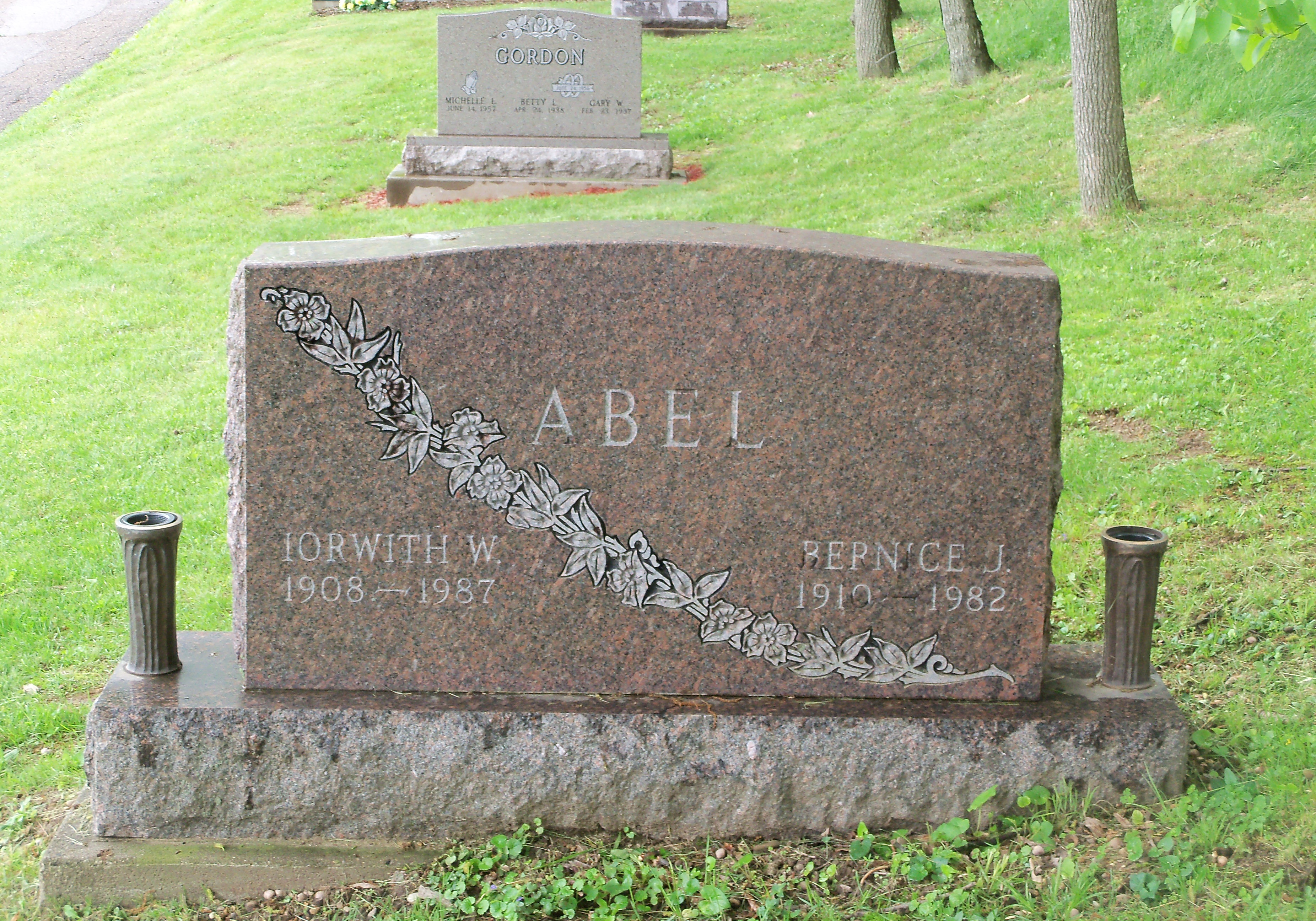 Tombstone in Magnolia Cemetery, Magnolia, Ohio of labor leader I. W. Abel (born 1908-08-11, died 1987-08-10)